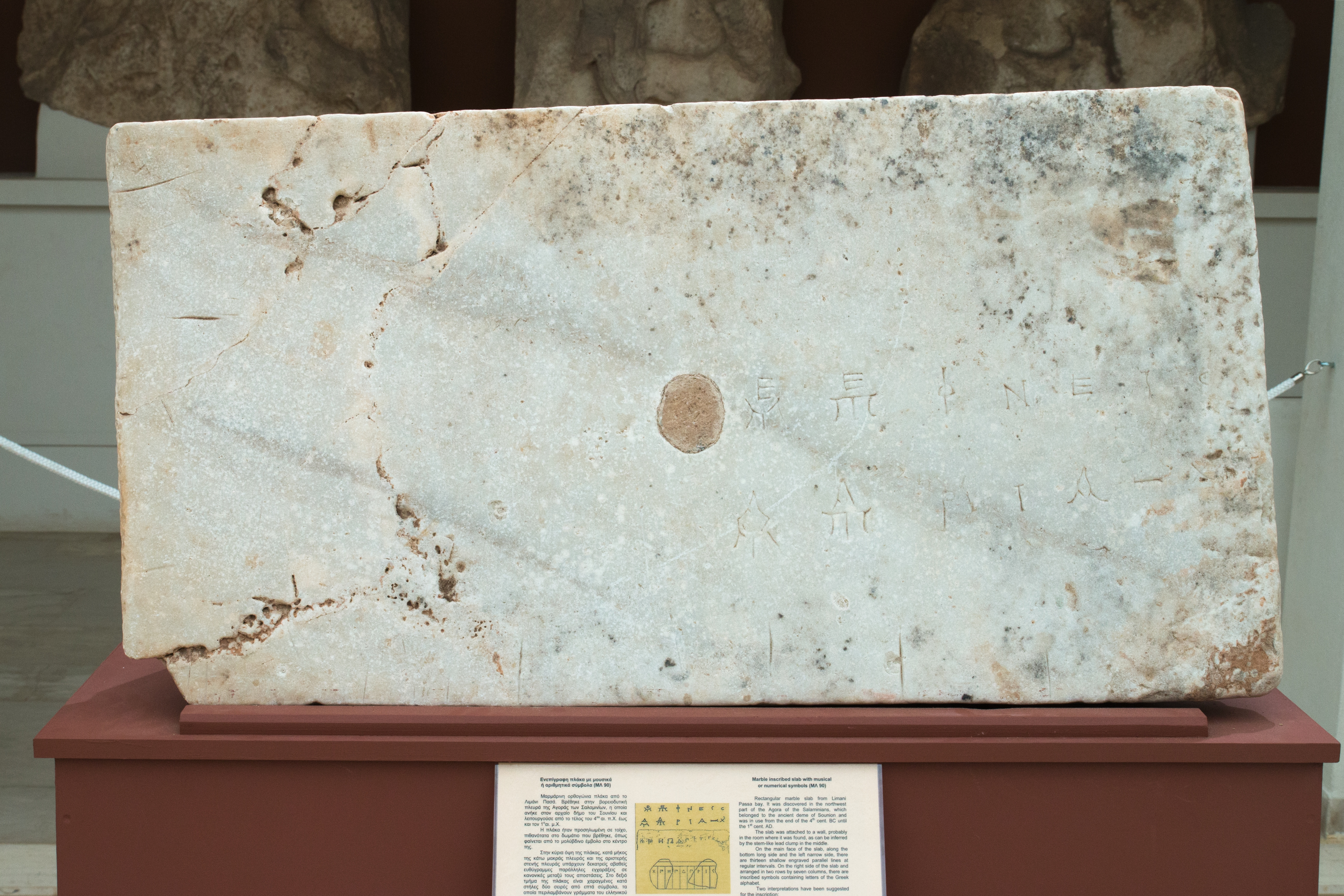 Marble inscribed slab with musical or numerical symbols. AM Lavrion, ML 90. Rectangular marble slab from Limani Passa bay. It Was discovered in the northwest part of the Agora of the Salamians, wich belonged to the ancient deme of Sunion and was in use from the end of the 4th century BC until the 1st century AD. Two interpretations: 1. As a musical couplet in wich the first line is in the Sublydian chromatic mode and the second alternates between Dorian and diatonic Lydian mode. 2. As an abacus for finantial calculations and commercial transactions in the agora. The inscribed symbols stand for integer and decimal numbers.